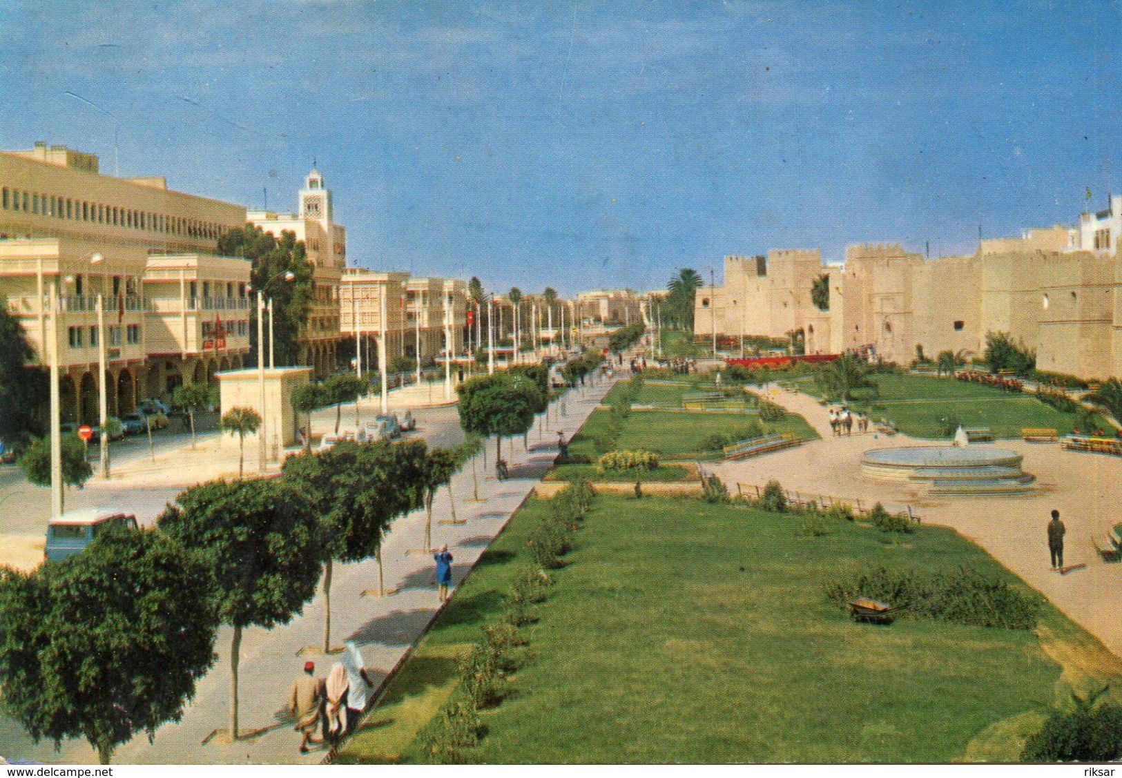 Limits between the medina and the modern city in Sfax in the 70s